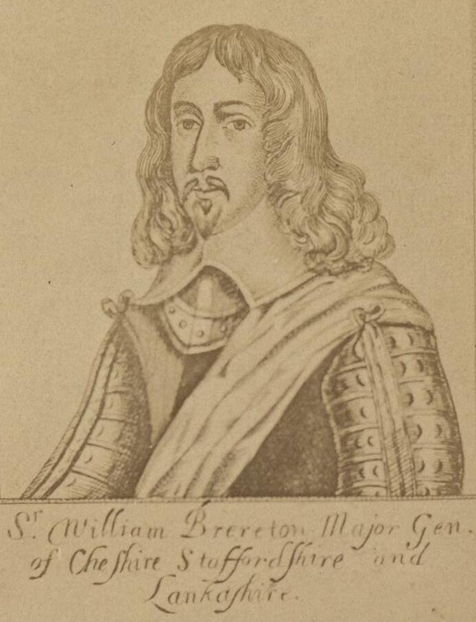 A portrait from the Welsh Portrait Collection at the National Library of Wales. Depicted person: William Brereton, 2nd Baron Brereton – English Royalist landowner and politician